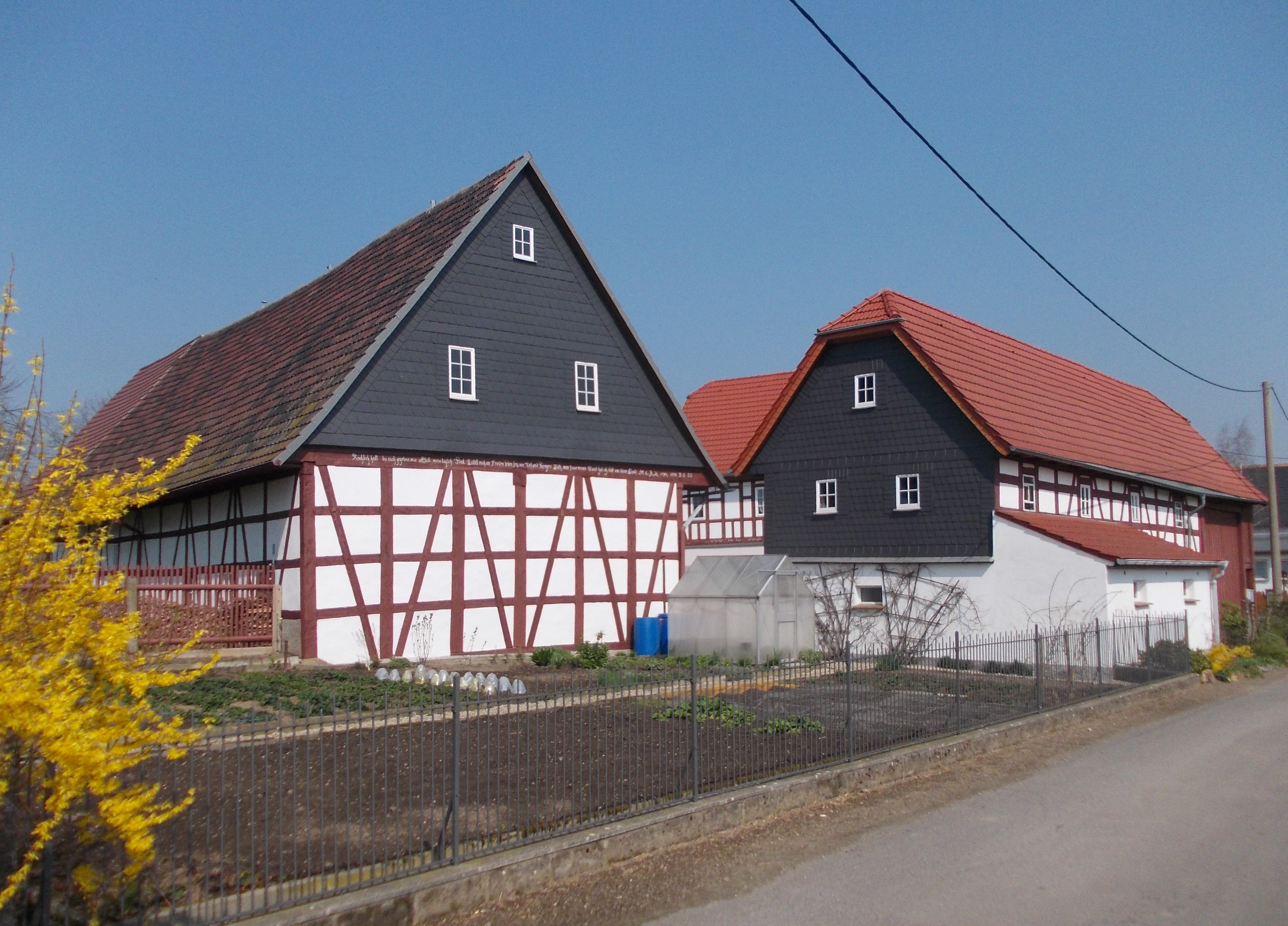 Farmstead in Neukirchen (Oberwiera, Zwickau district, Saxony)